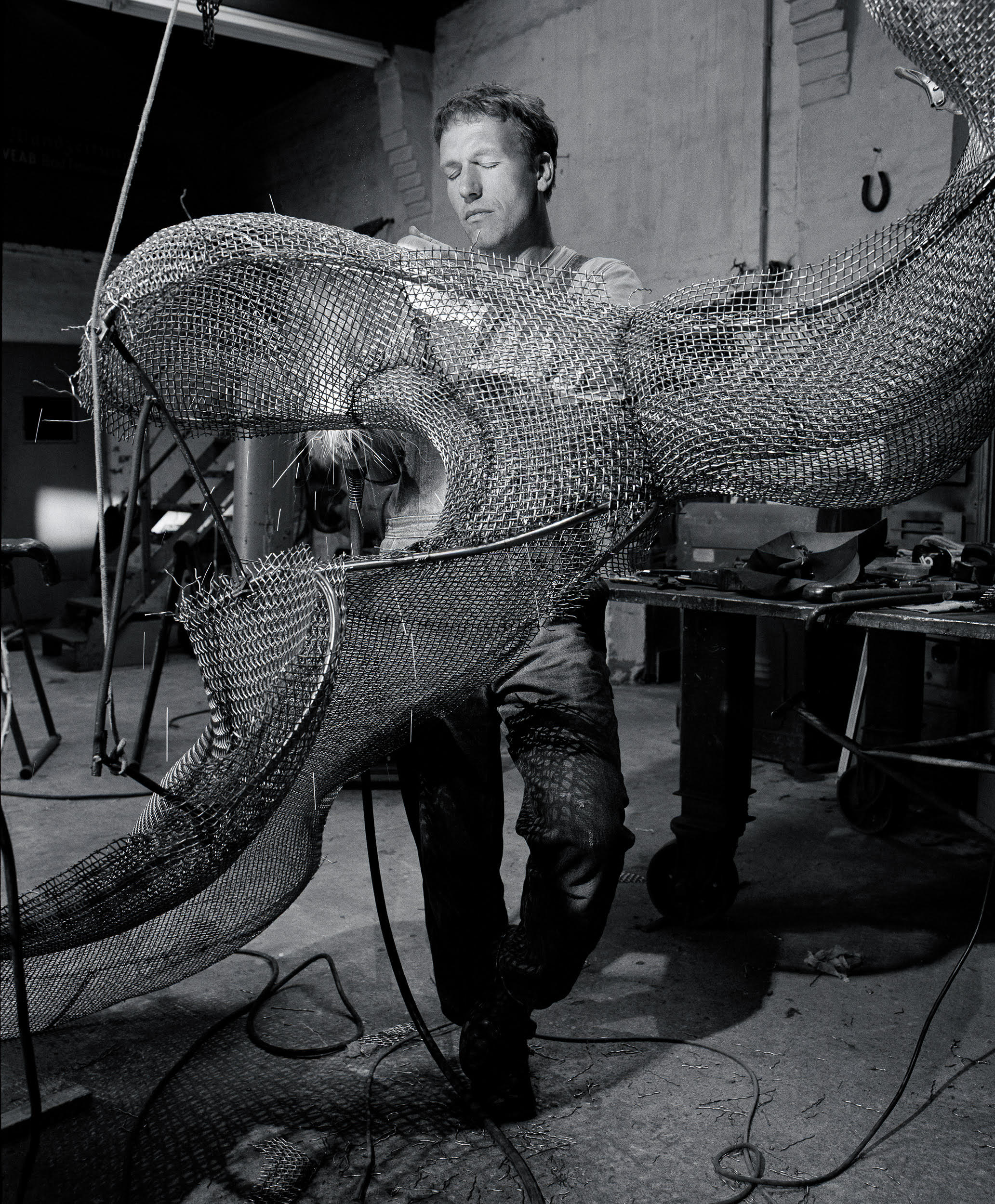 Axel Anklam portrayed by Oliver Mark, Bad Freienwalde 2014